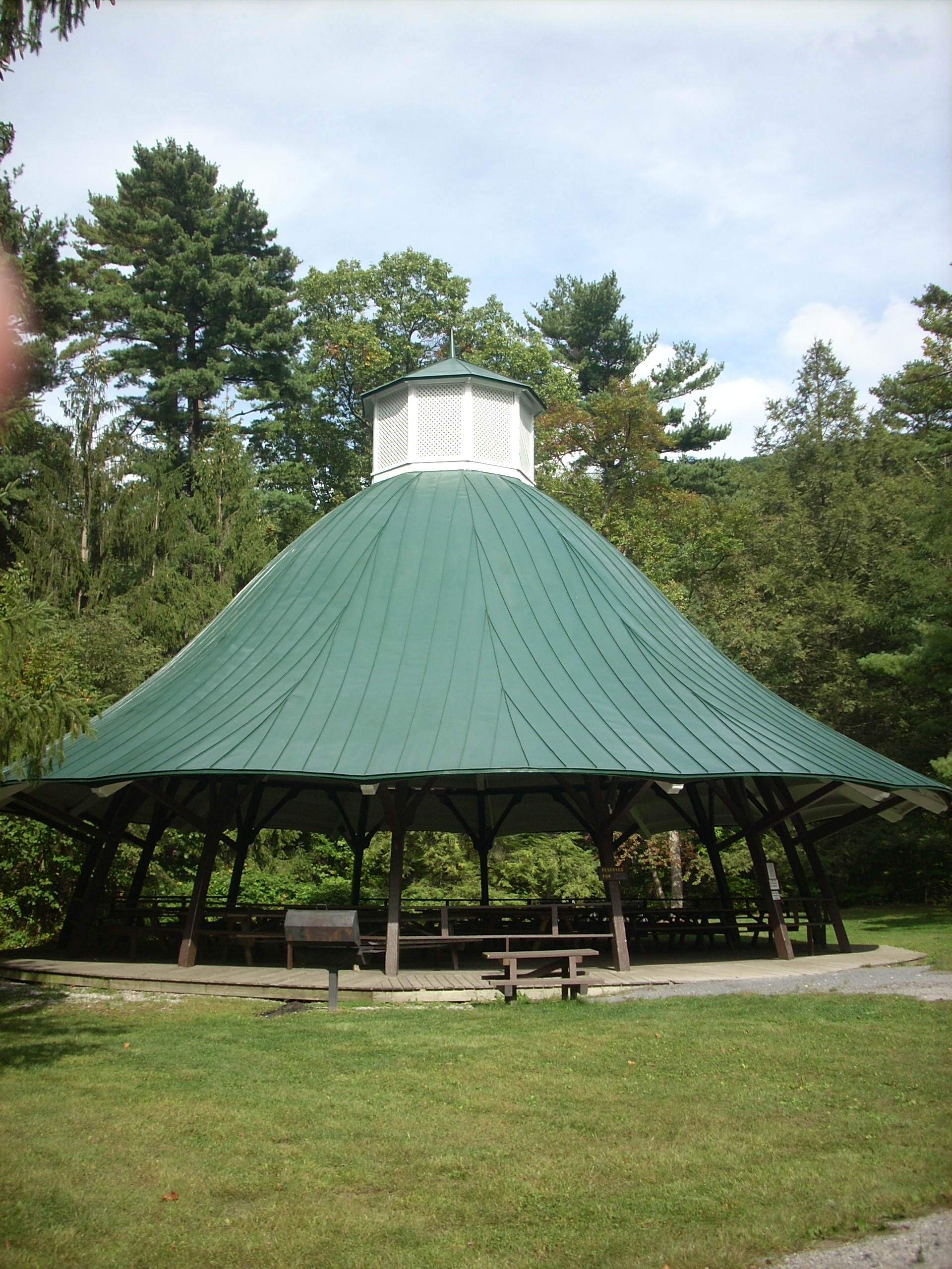 This pavilion was formerly the shelter for a carousel at Mont Alto State Park